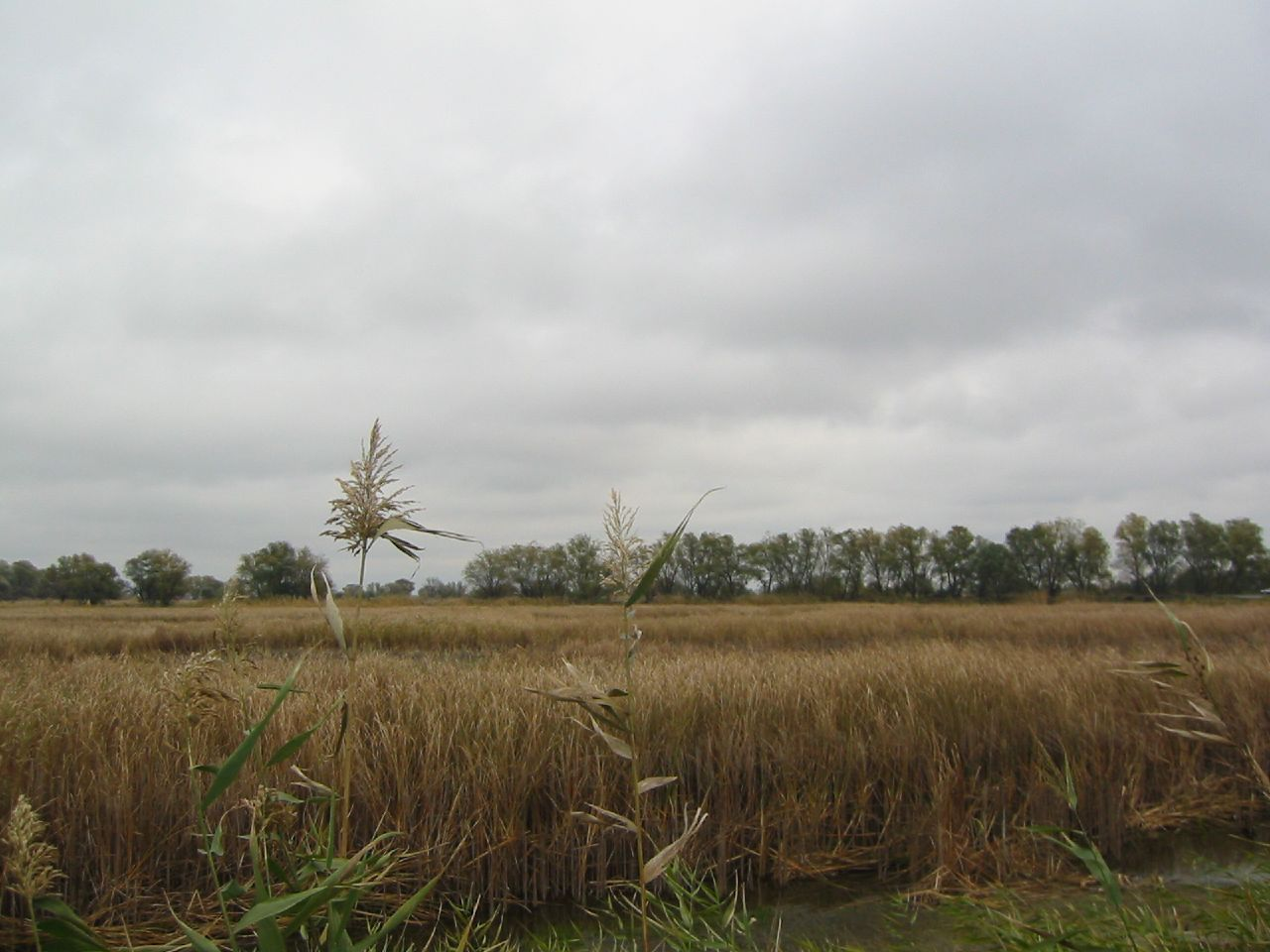 Russian plain near Rostov-on-Don